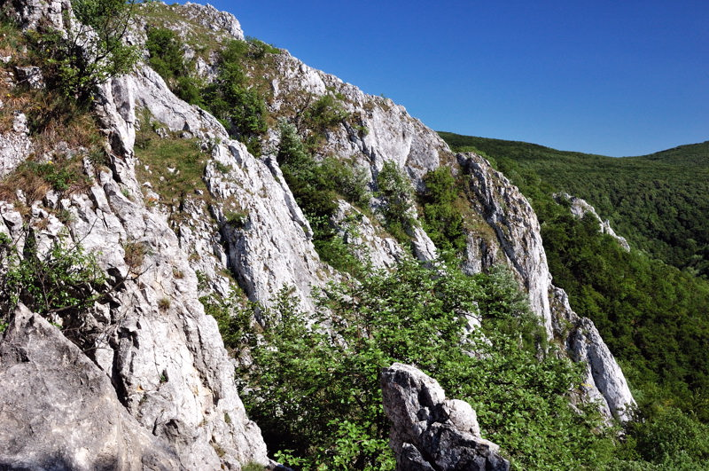 Kršlenica, Plavecký kras